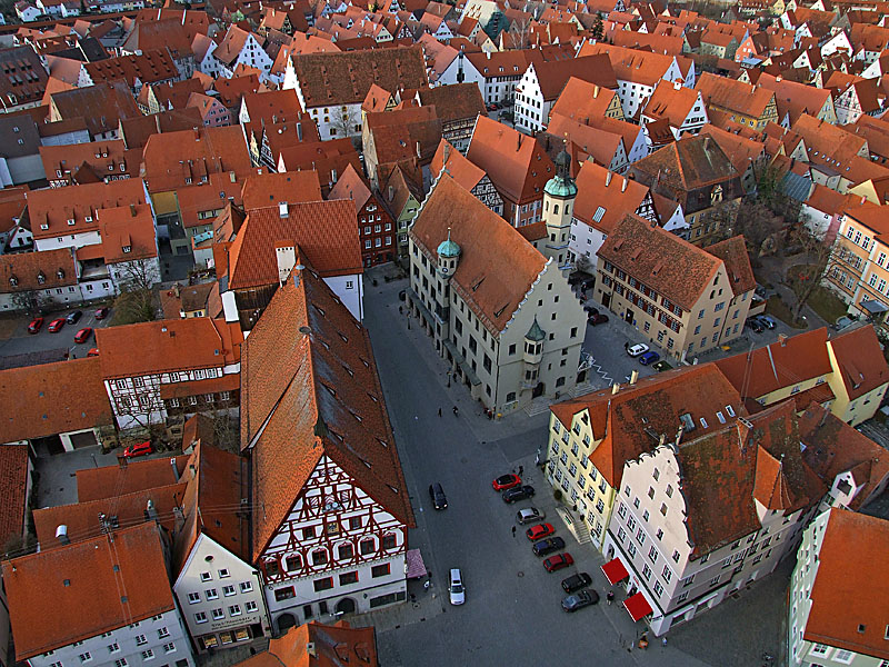 The dominating church tower of Daniel offers charming views over the old city of Noerdlingen. Here the part around the town hall is shown.